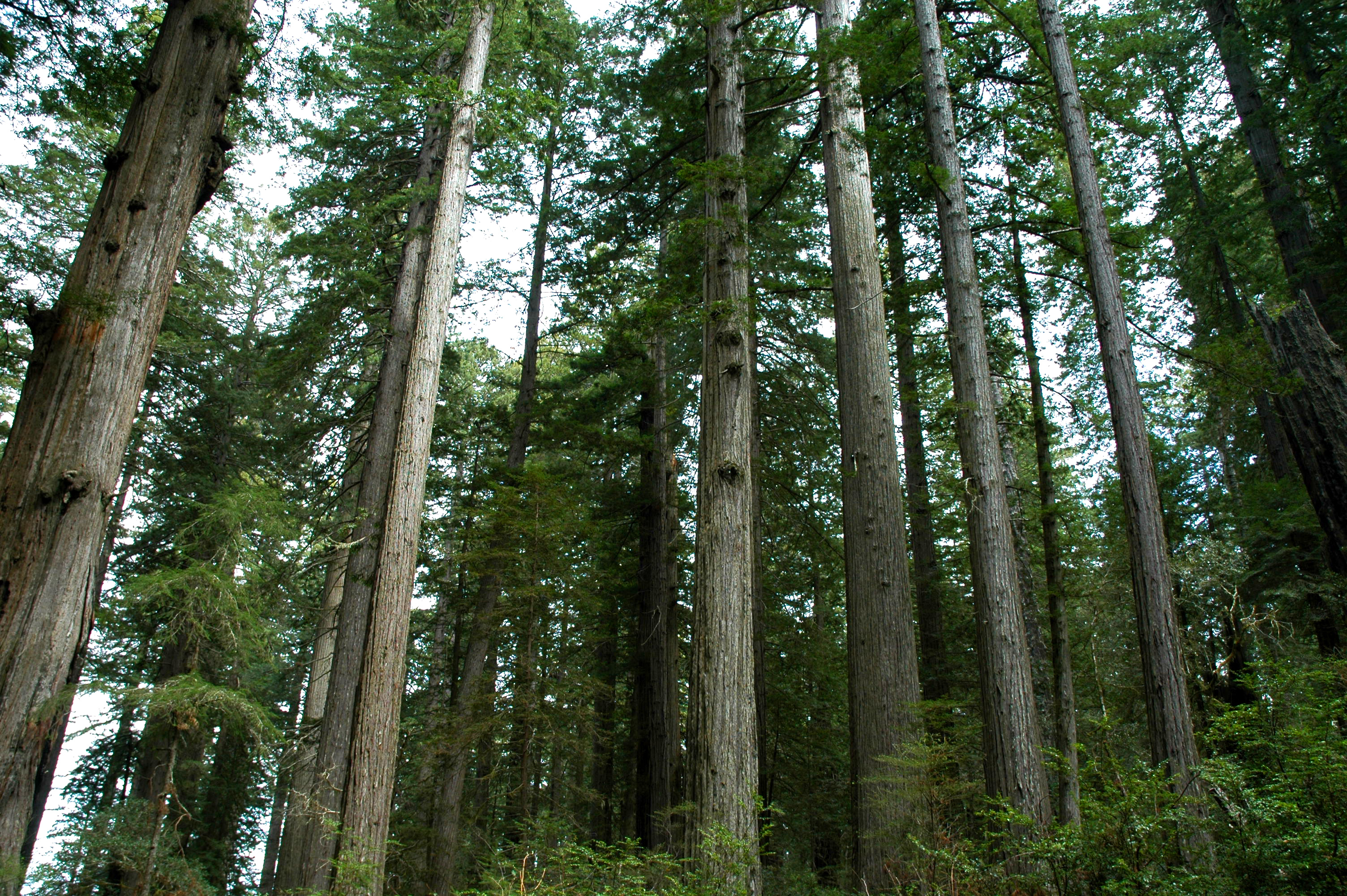 Sequoia sempervirens trunks, Lady Bird Johnson Grove, Redwoods National and State Park, California